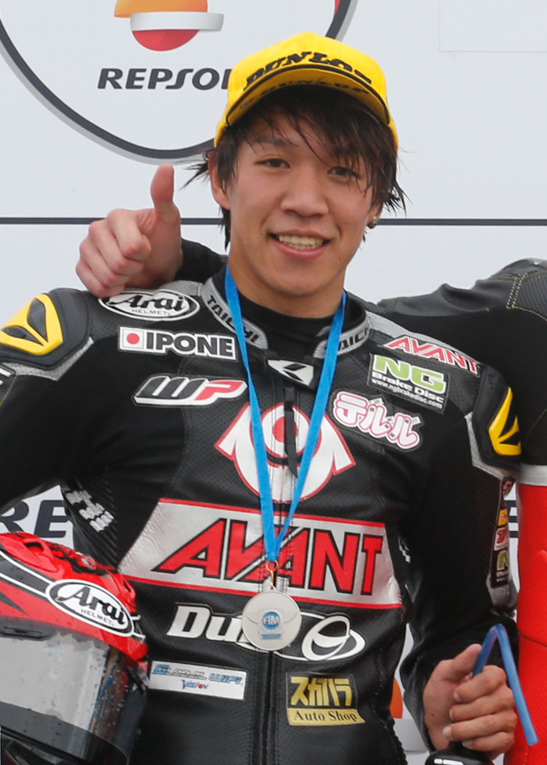 Tetsuta Nagashima on the podium of the 2016 CEV Moto2 final championship standings.